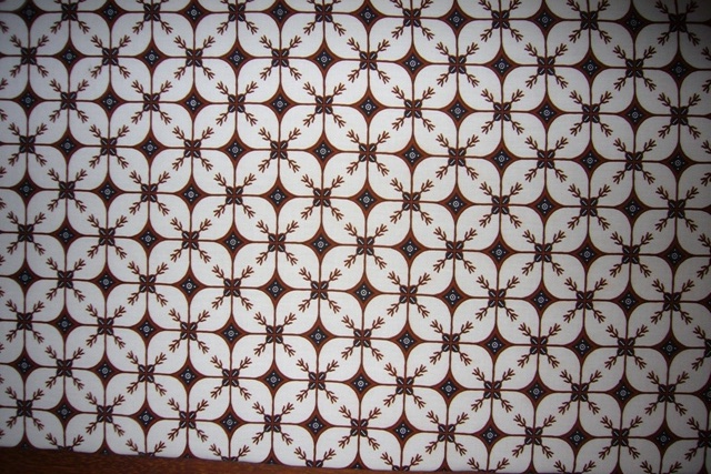 Typical inland batik from Yogyakarta, IndonesiaBahasa Indonesia: Batik pedalaman dari Yogyakarta, Indonesia